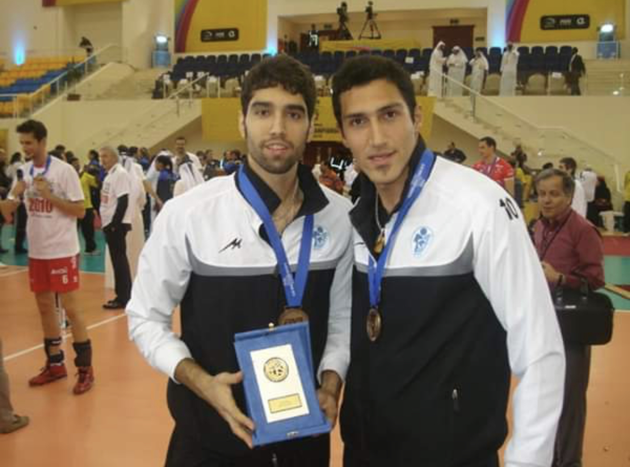 تیم ملی والیبال تیم باشگاهی